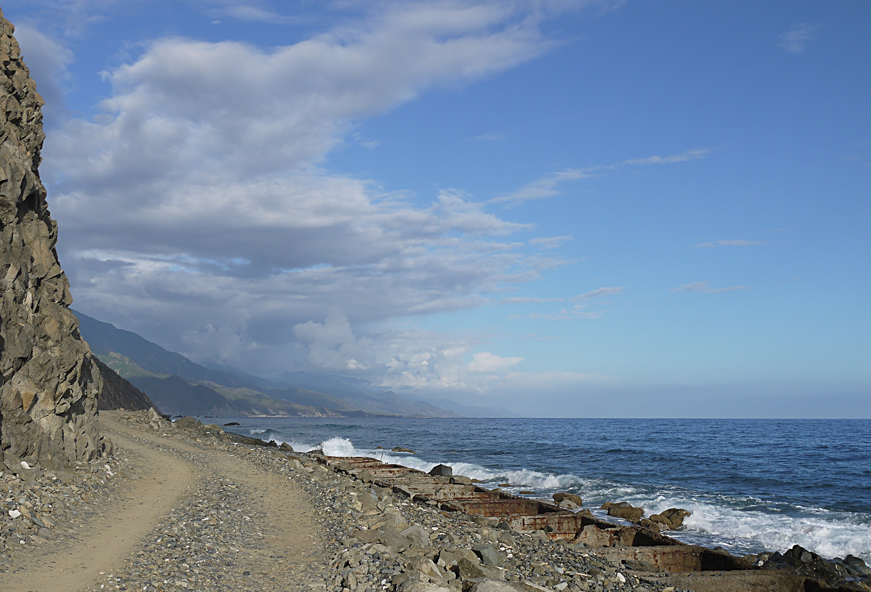 The Granma highway — on the coast in Guamá Municipality, Santiago de Cuba Province, southeastern Cuba. The Sierra Maestra range is in the backround.